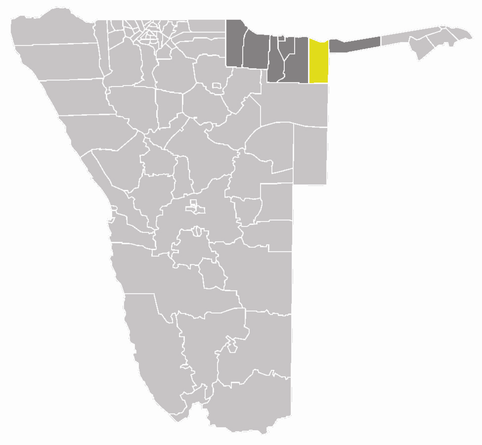 map of the Ndiyona constituency within the Kavango region, Namibia